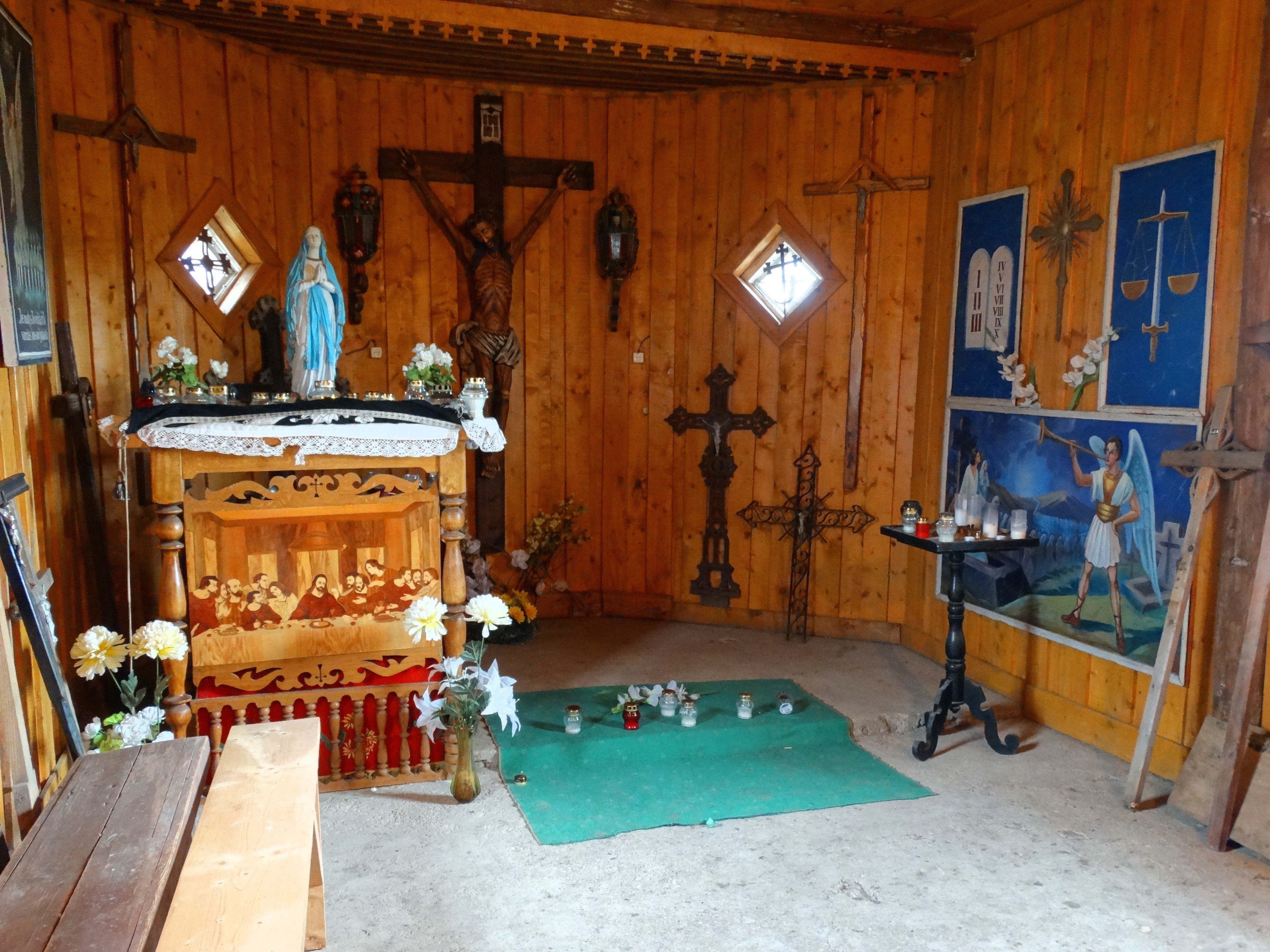 Cemetery chapel, Darsūniškis, Lithuania